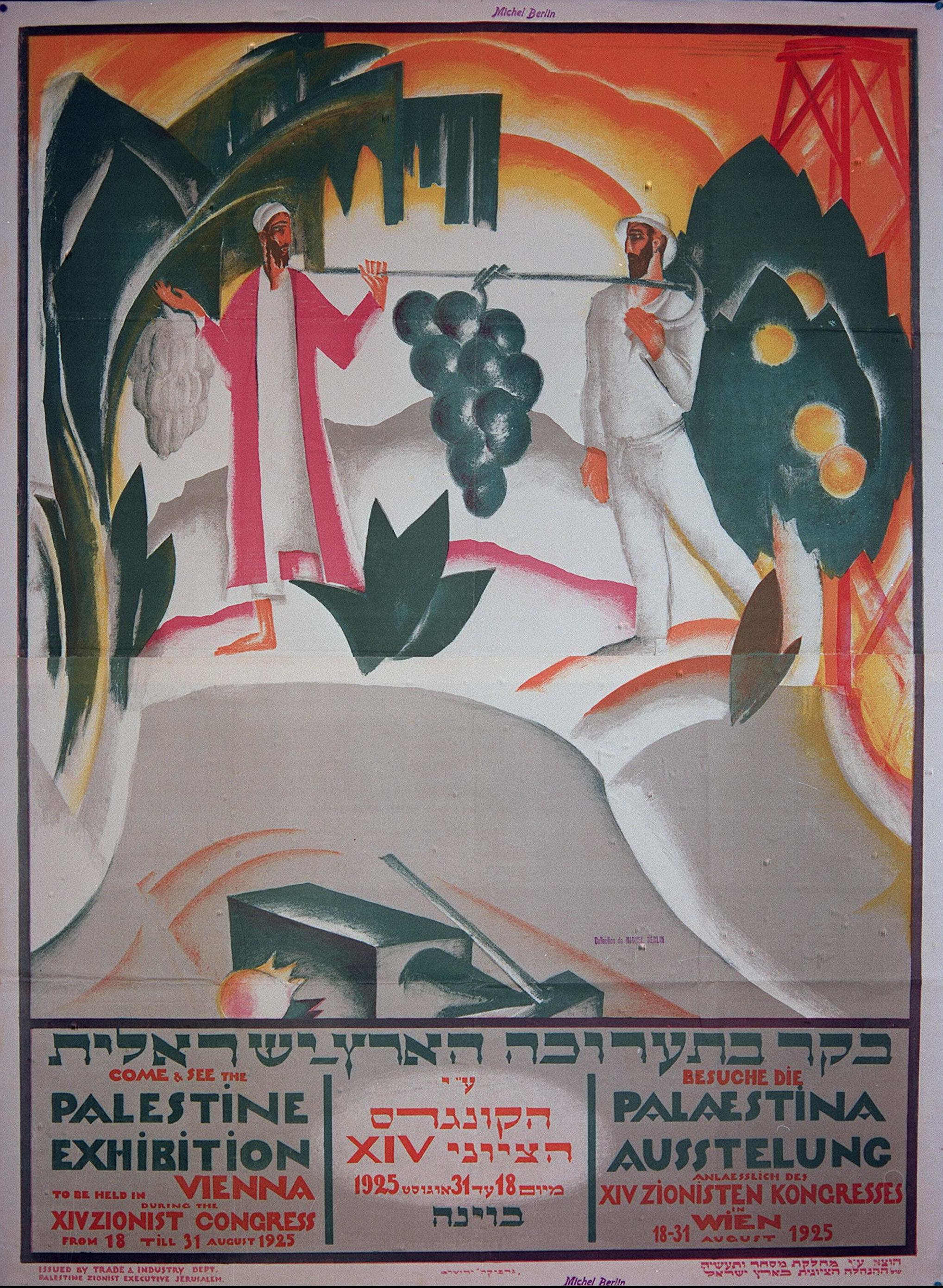 POSTER PUBLISHED BY THE ZIONIST CONGRESS IN 1925 ENCOURAGING VISITS TO THE "PALESTINE EXHIBITION". כרזה משנת 1925 שהופקה ע"י הקונגרס הציוני והקוראת לבקר בתערוכה "ארץ ישראלית" .